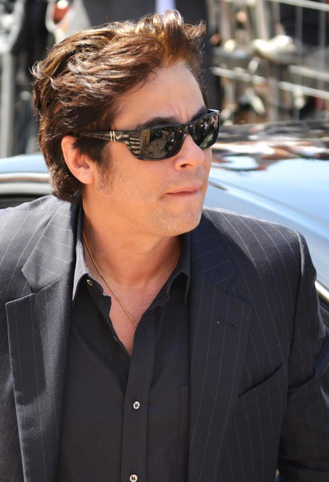 Benicio del Toro at the Cannes Film Festival